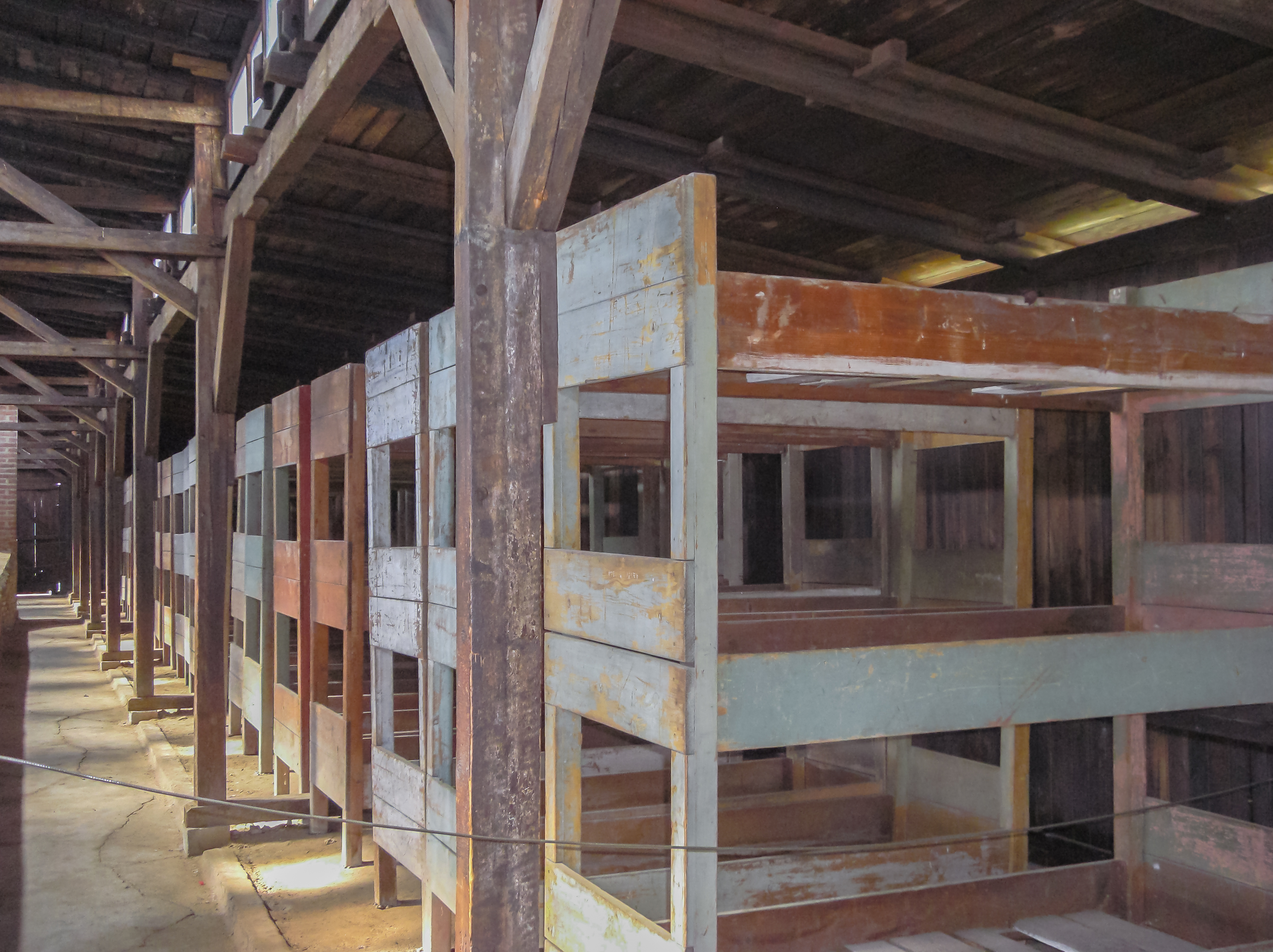 Barracks Auschwitz ll (Birkenau), Poland